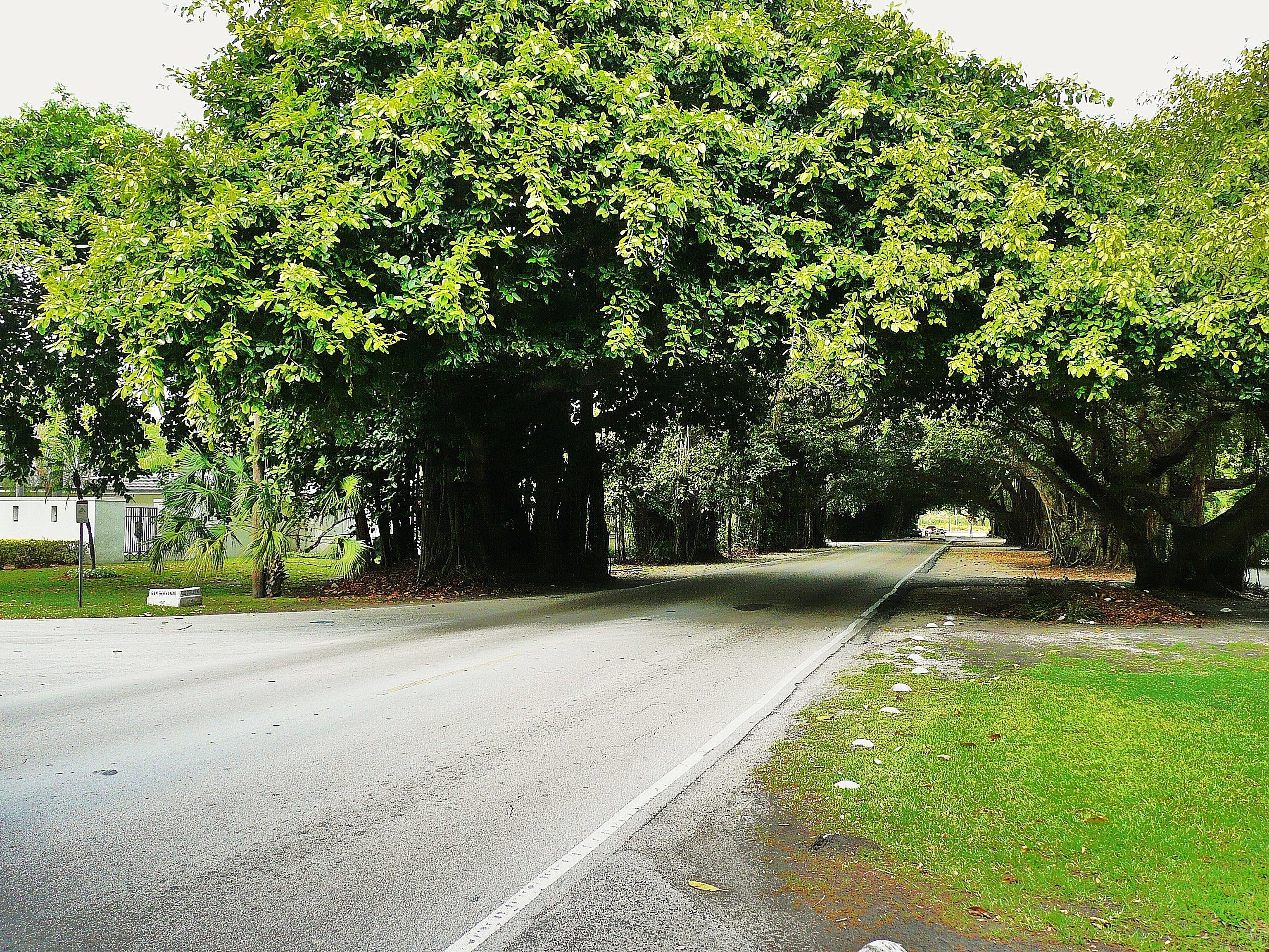 Digital photo taken by Marc Averette. Old Cutler Road in Coral Gables, Florida, United States.